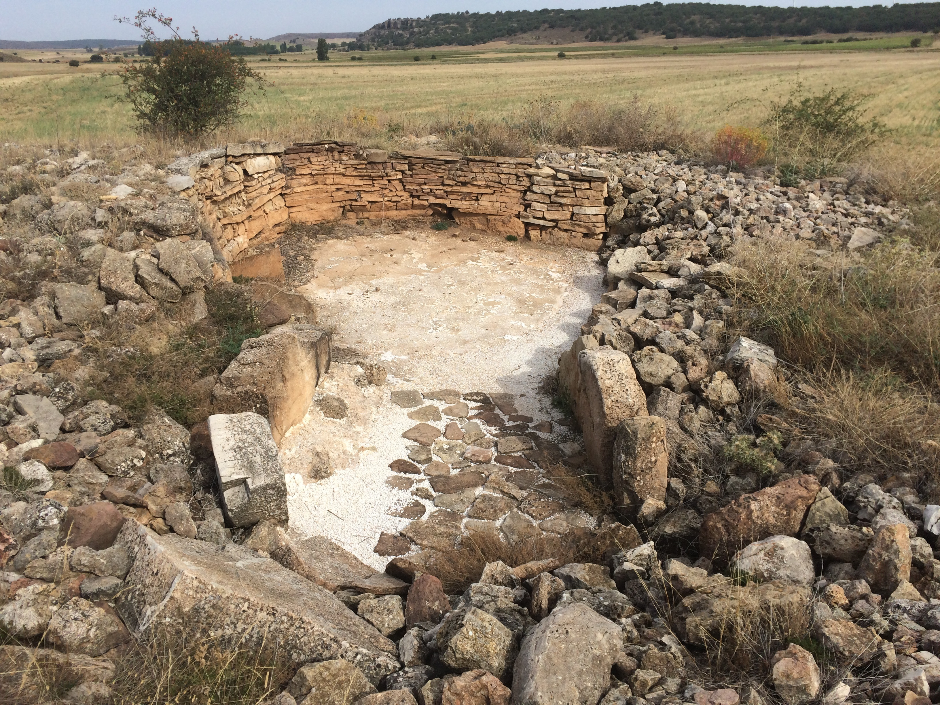 Neolithic tomb. Ambrona Valley. Soria (Spain)